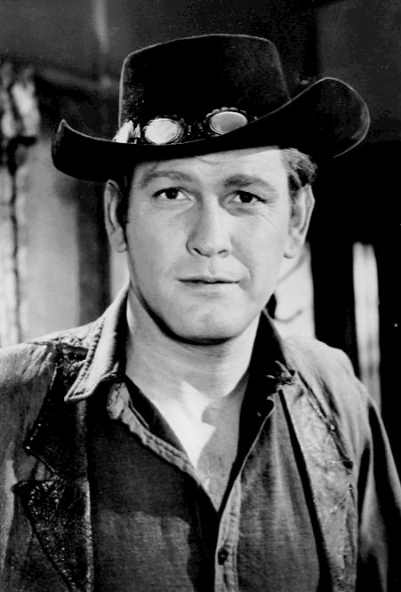 Composite photo of Earl Holliman. The left photo shows him as Mike Ferris in the premiere episode of The Twilight Zone, "Where is Everybody?". The right is as Sundance in "Hotel De Paree". Both programs premiered on the same night.